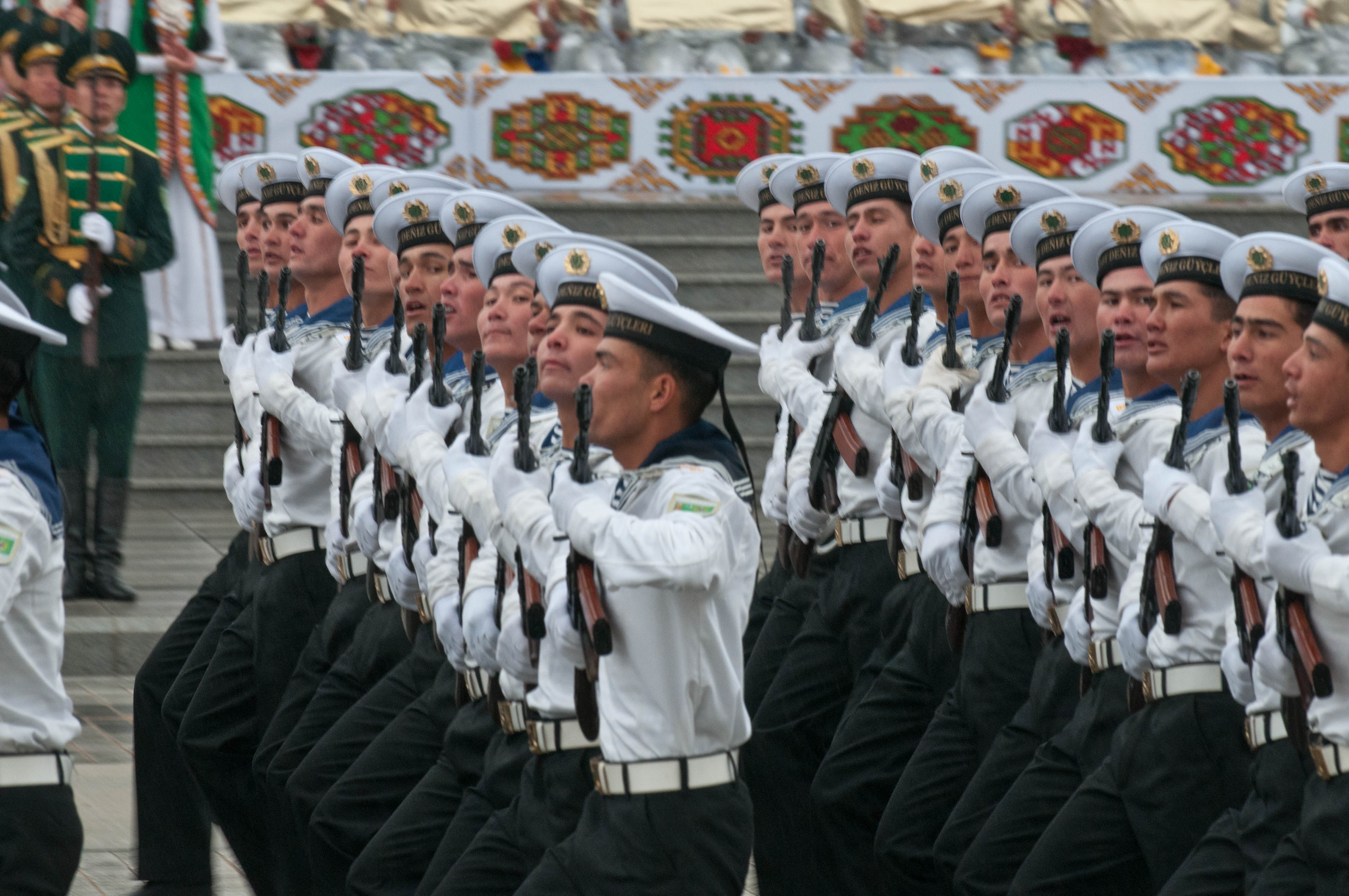 Celebrating the 20th year of independence in Turkmenistan